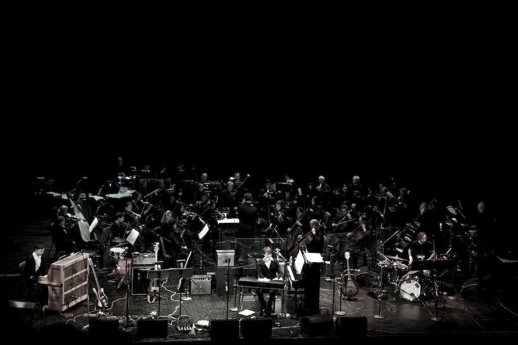 Brooklin Philarmonic